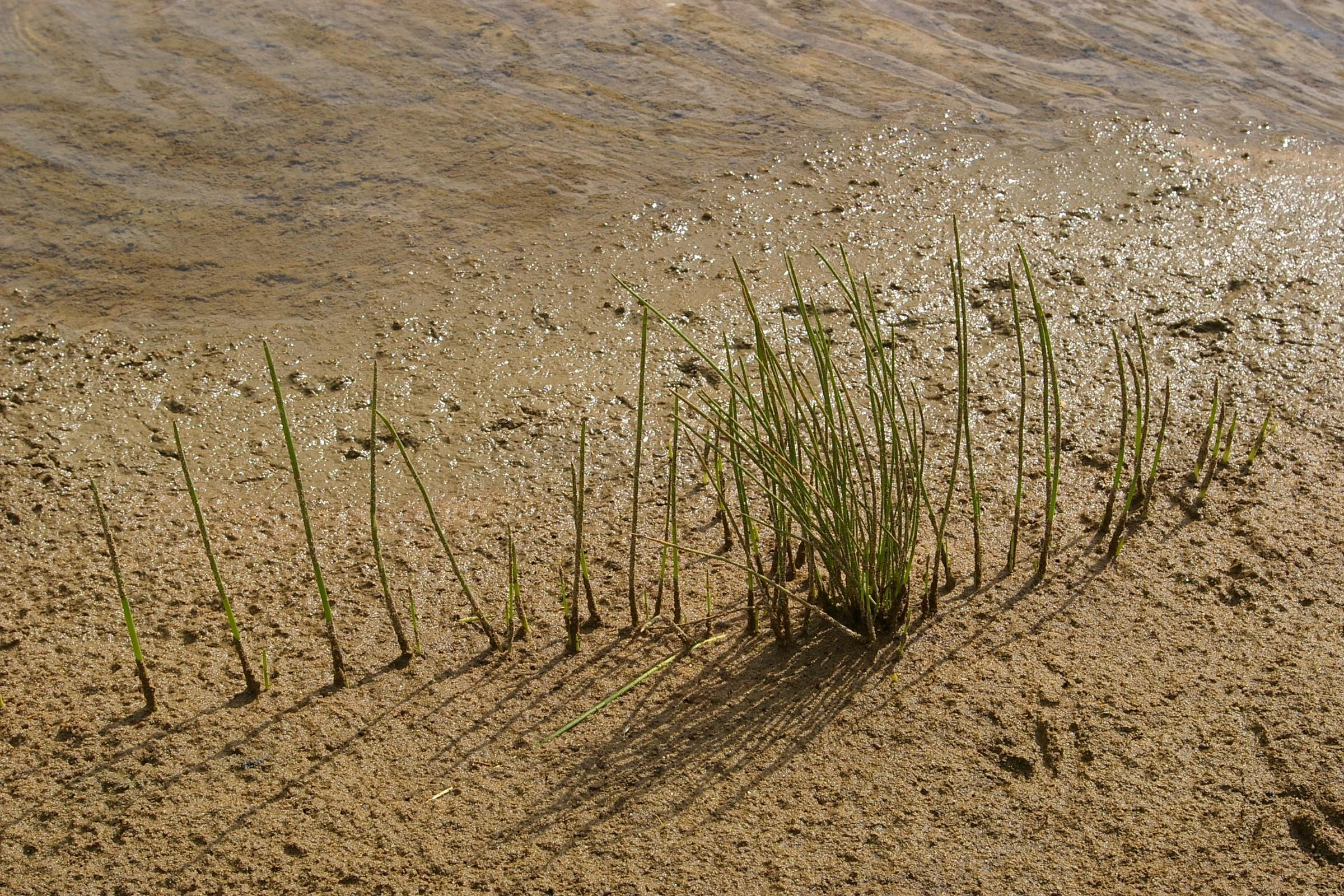 A plant of Eleocharis palustris (agg.) developing stolons to expand at the banks of a pool.